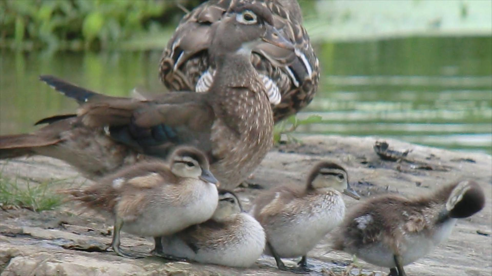 Forest Park in St. Louis MO on 6/25/11